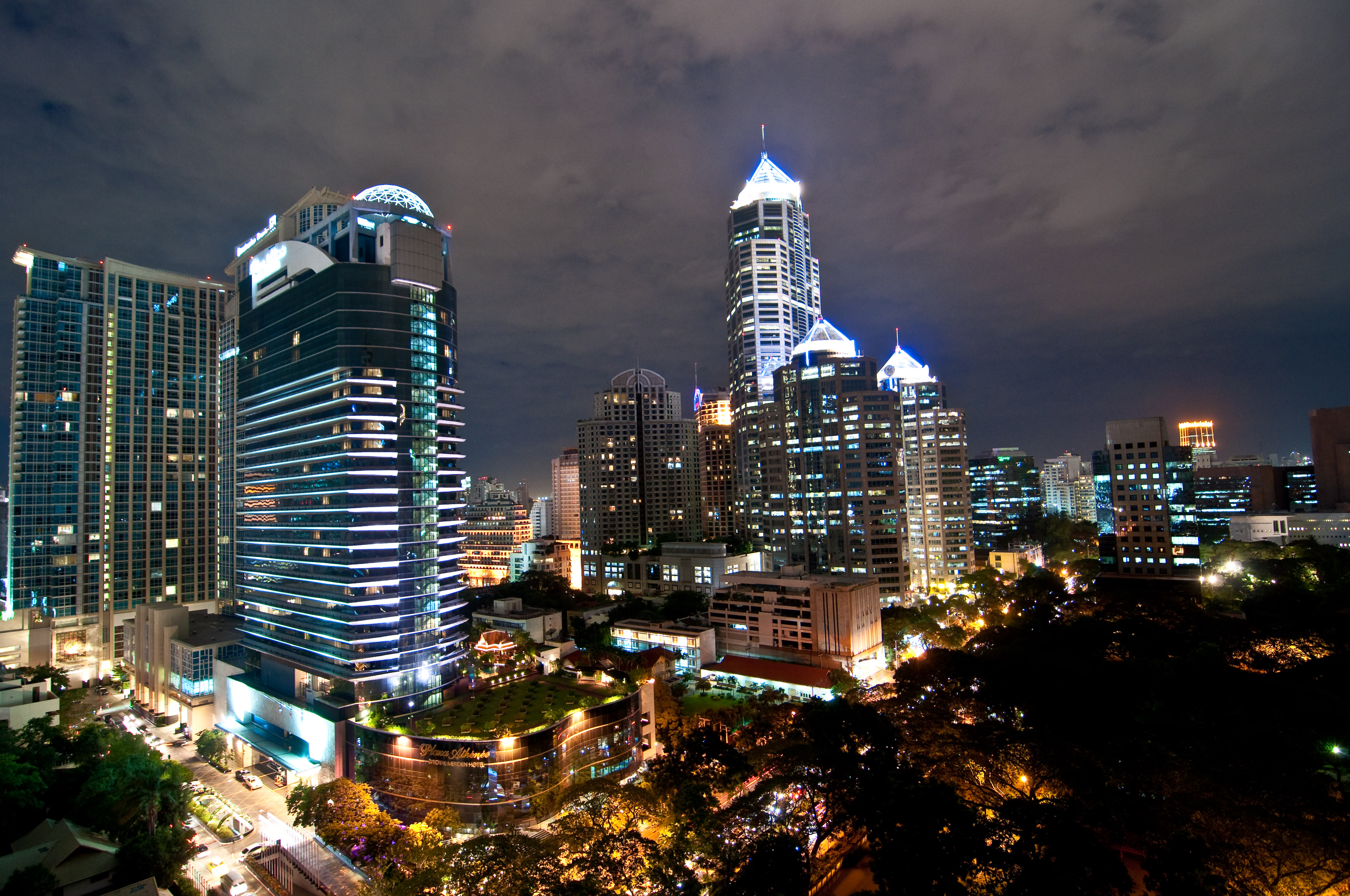 The Plaza Athenee hotel (left) and All Seasons Place (right-center) in Bangkok, Thailand with China Resources Building.